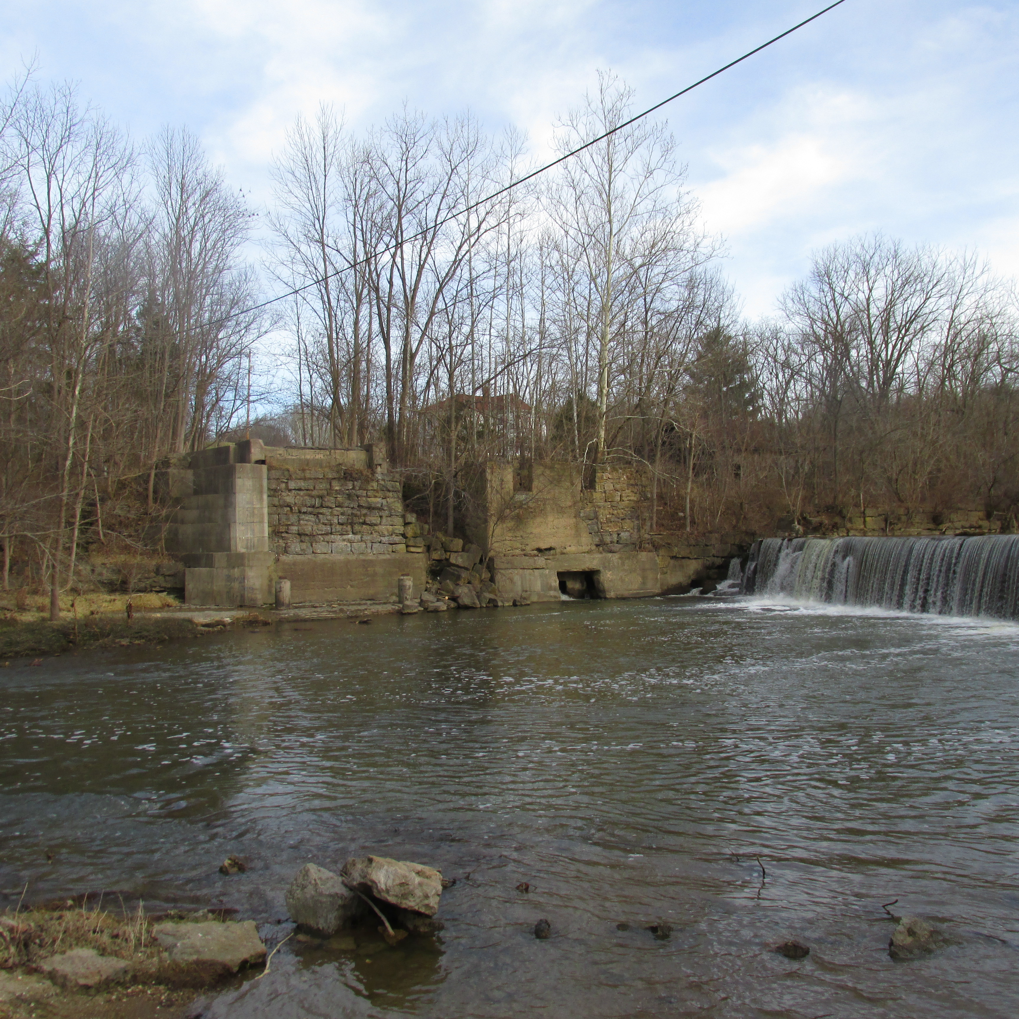 Former location of Barretts Mill in Highland County, Ohio.